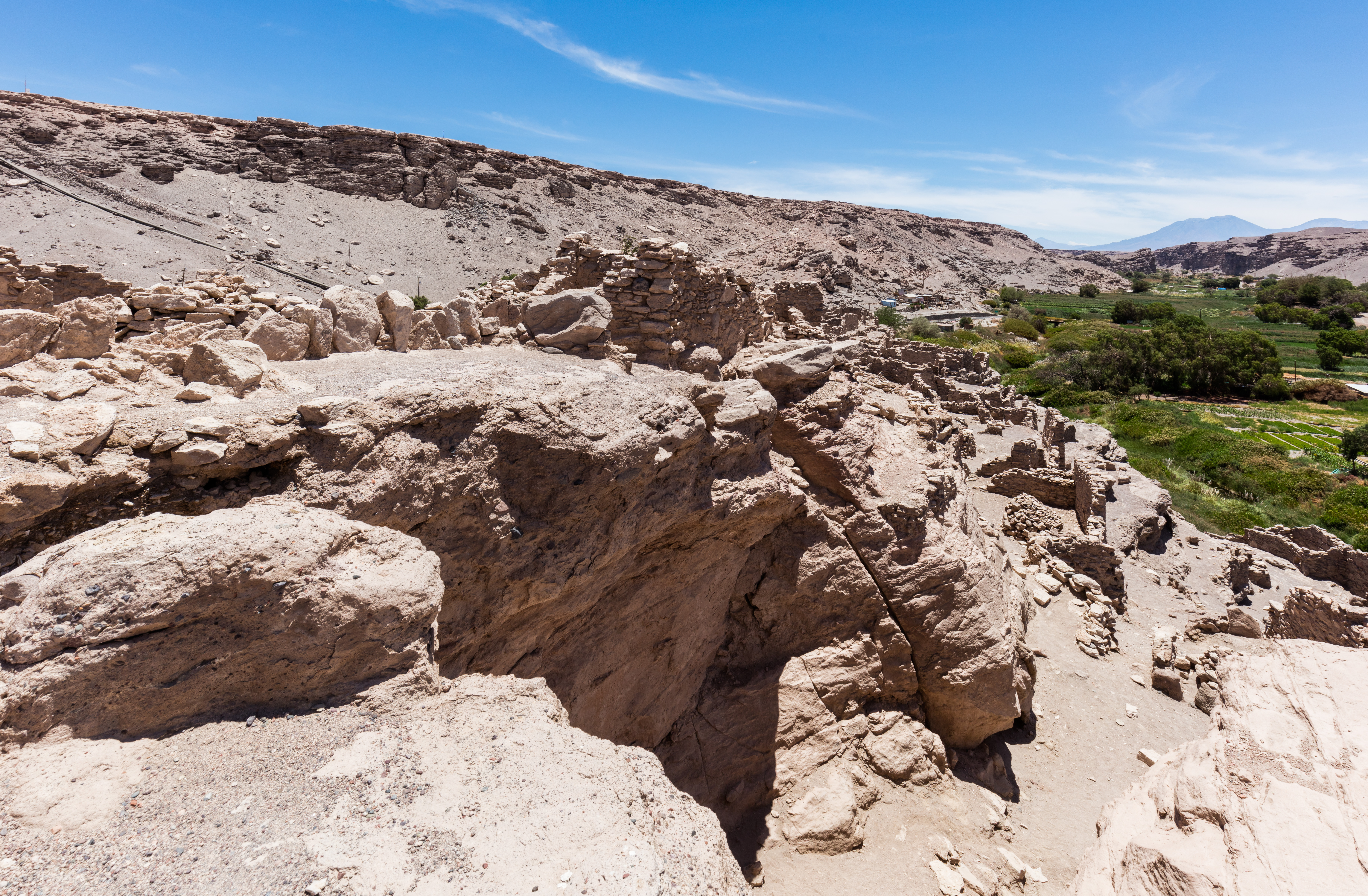 Pucará of Lasana, Chile